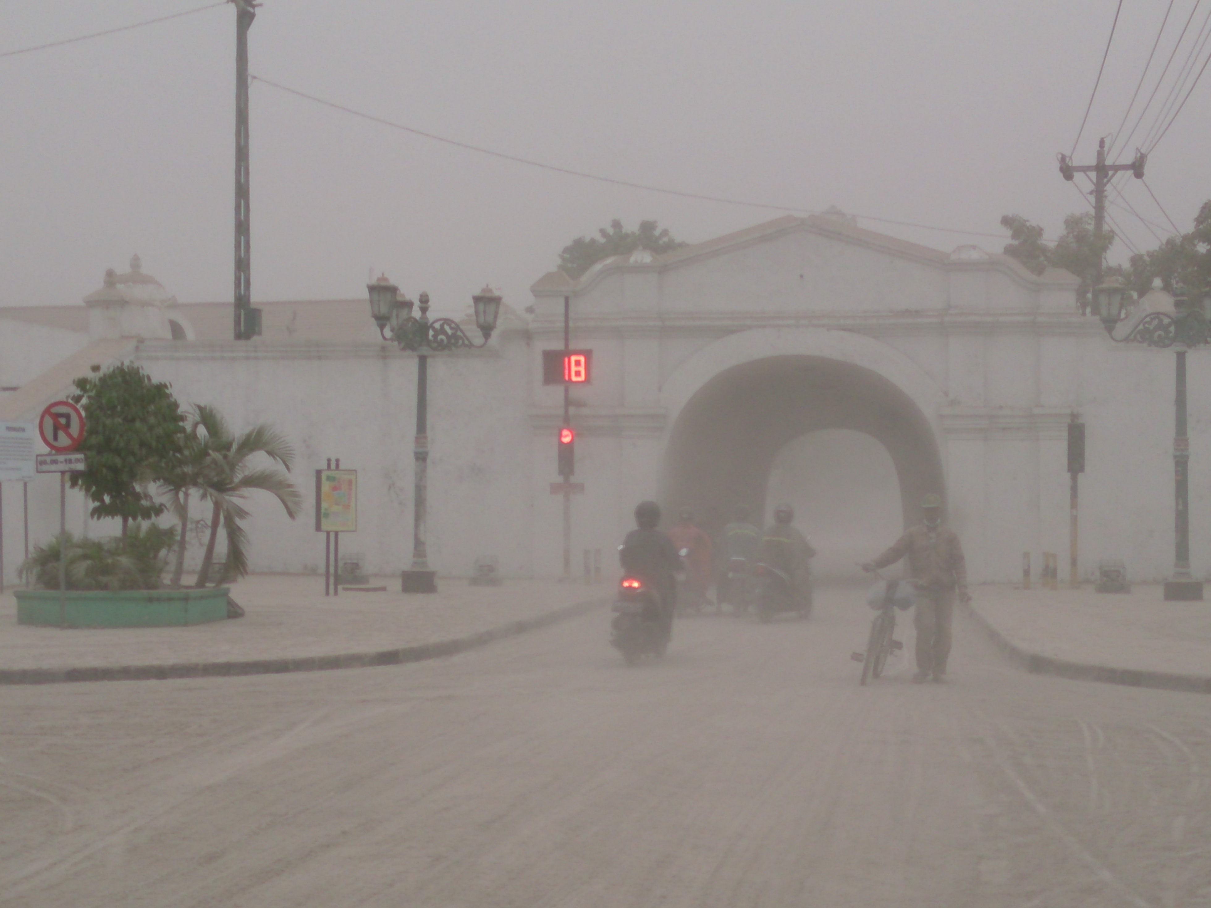 Kelud Eruption 2014